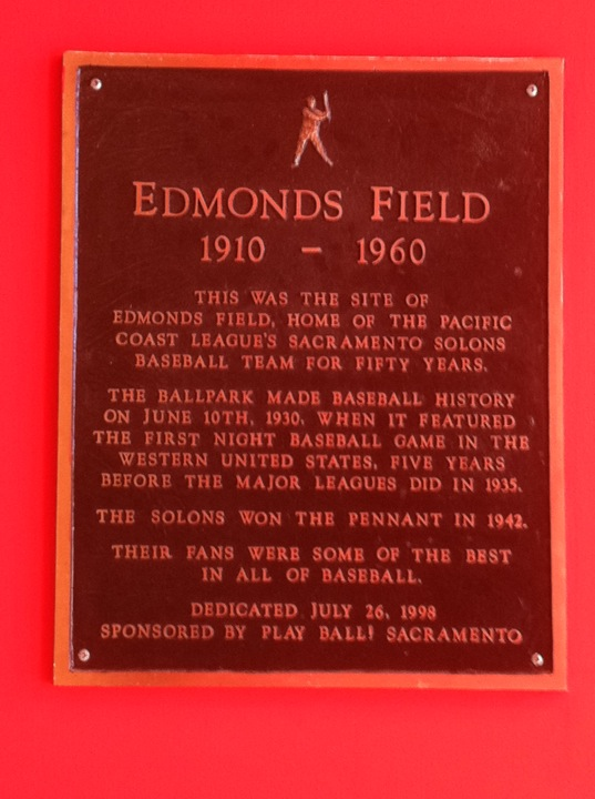 Sign at the former site of Edmonds Field in Sacramento